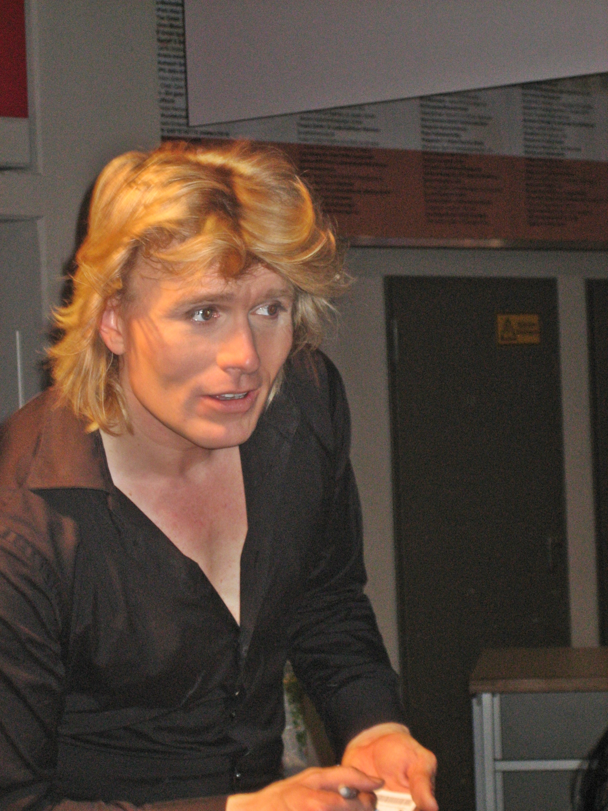 Dutch magician Hans Klok signing autographs after a show